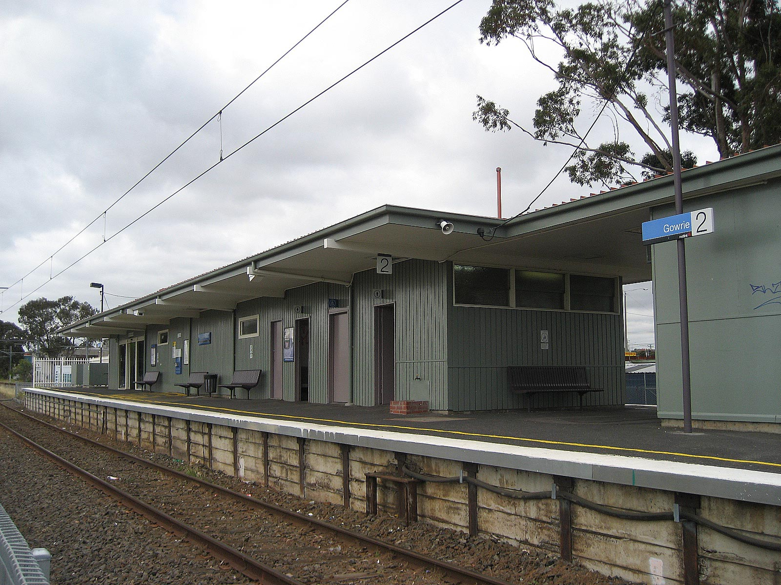 Station building at Gowrie. Picture taken by myself.